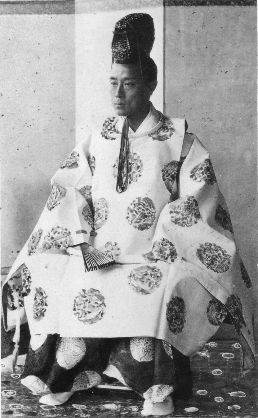 Yoshinobu in Osaka.